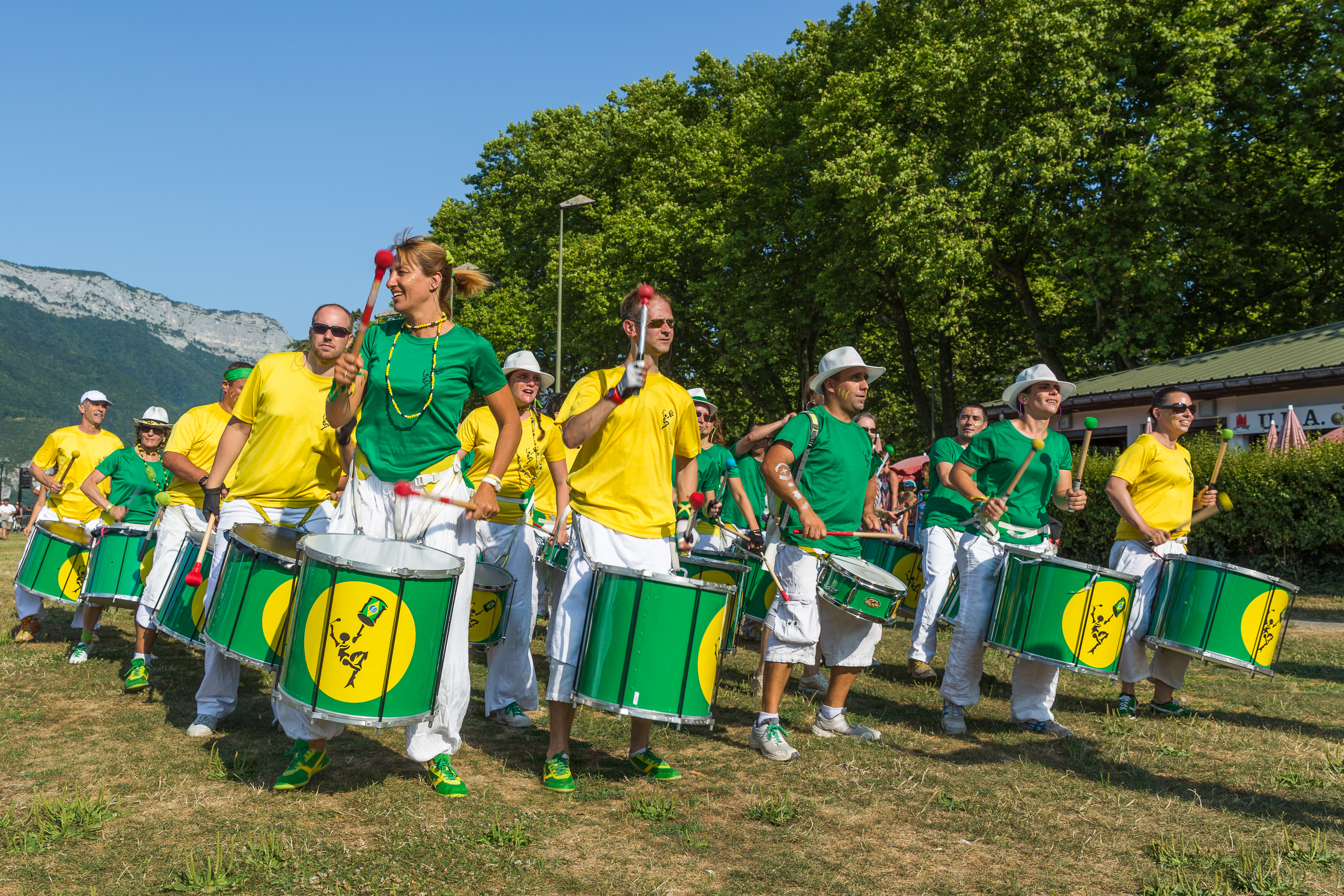 Group Tribal Percussion marching in Annecy (France) playing Brazilian percussion: the Batucada. Website